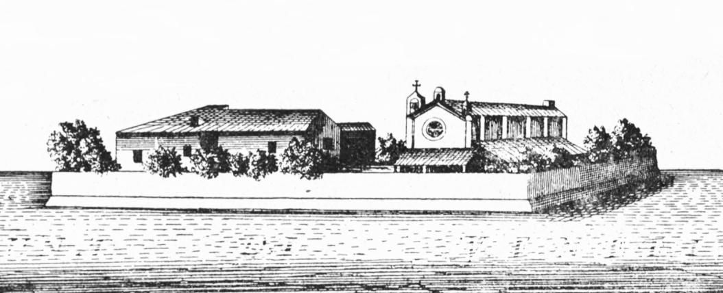 San Lazzaro degli Armeni